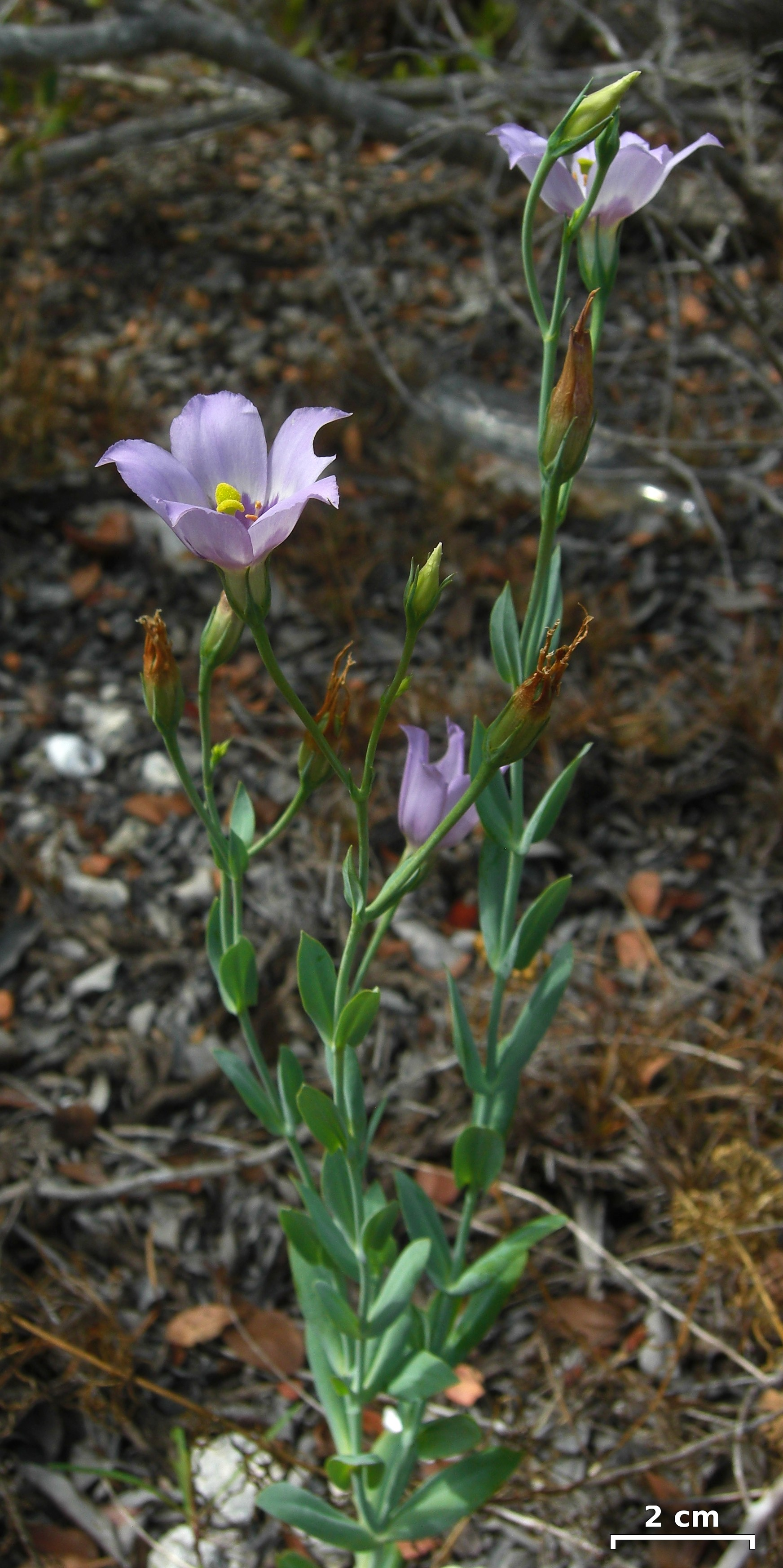 Eustoma exaltatum Dove Creek, lower Key Largo, Florida, 20110404